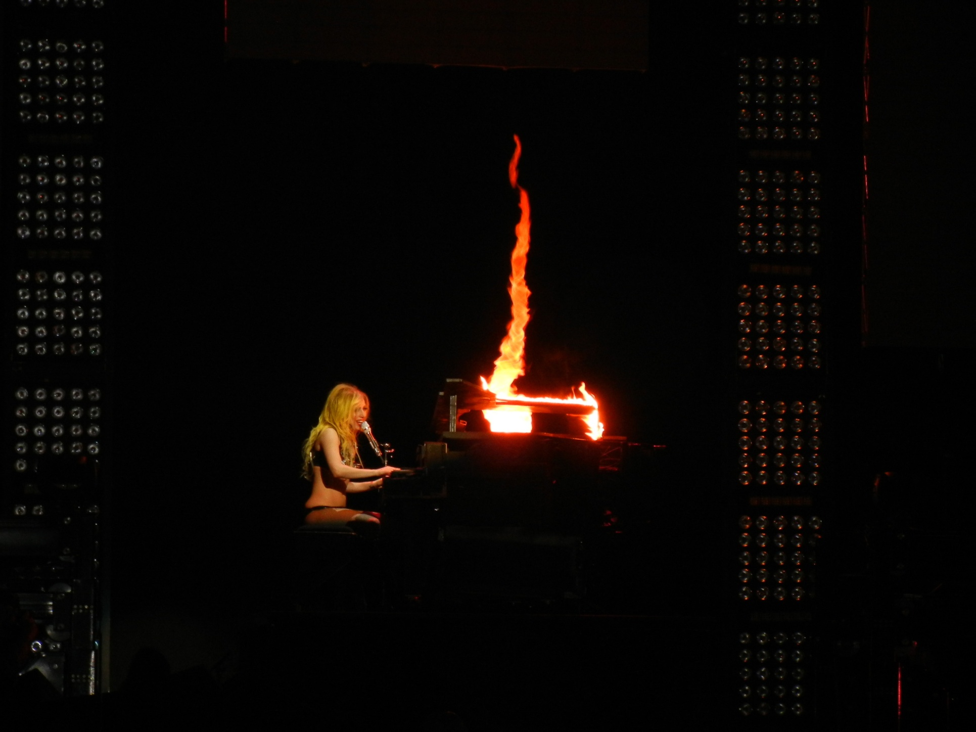 Lady Gaga playing piano in Nashville in her Monster Ball Tour